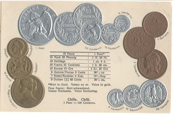 A Chilean postcard from the early 1900's with all of Chile's contemporary coins.